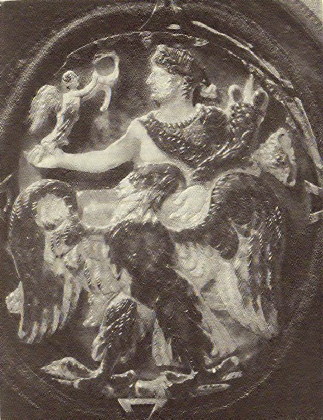 Description: Unknown artist, Apotheosis of Nero, c. after C.E. 68, from the Bibliothèque Municipale de Nancy, France. Artist died over 1800 years ago, therefore in the public domain. Also, this photographical reproduction is also in the public domain, at least in the United States (see Bridgeman Art Library v. Corel Corp.)